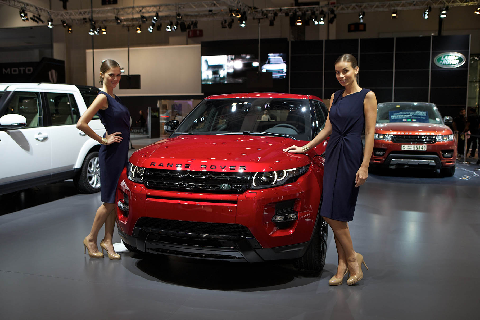 Luxury automotive manufacturer Jaguar Land Rover today revealed a sneak preview of the next generation of its technologically advanced vehicles at the Dubai International Motor Show. Visitors to the five day motor show are among the first in the world to get up close and personal with Land Rover’s exclusive Range Rover Autobiography Black Edition – the pinnacle of desirability that brings even higher levels of refinement to the world’s finest and most capable luxury SUV.